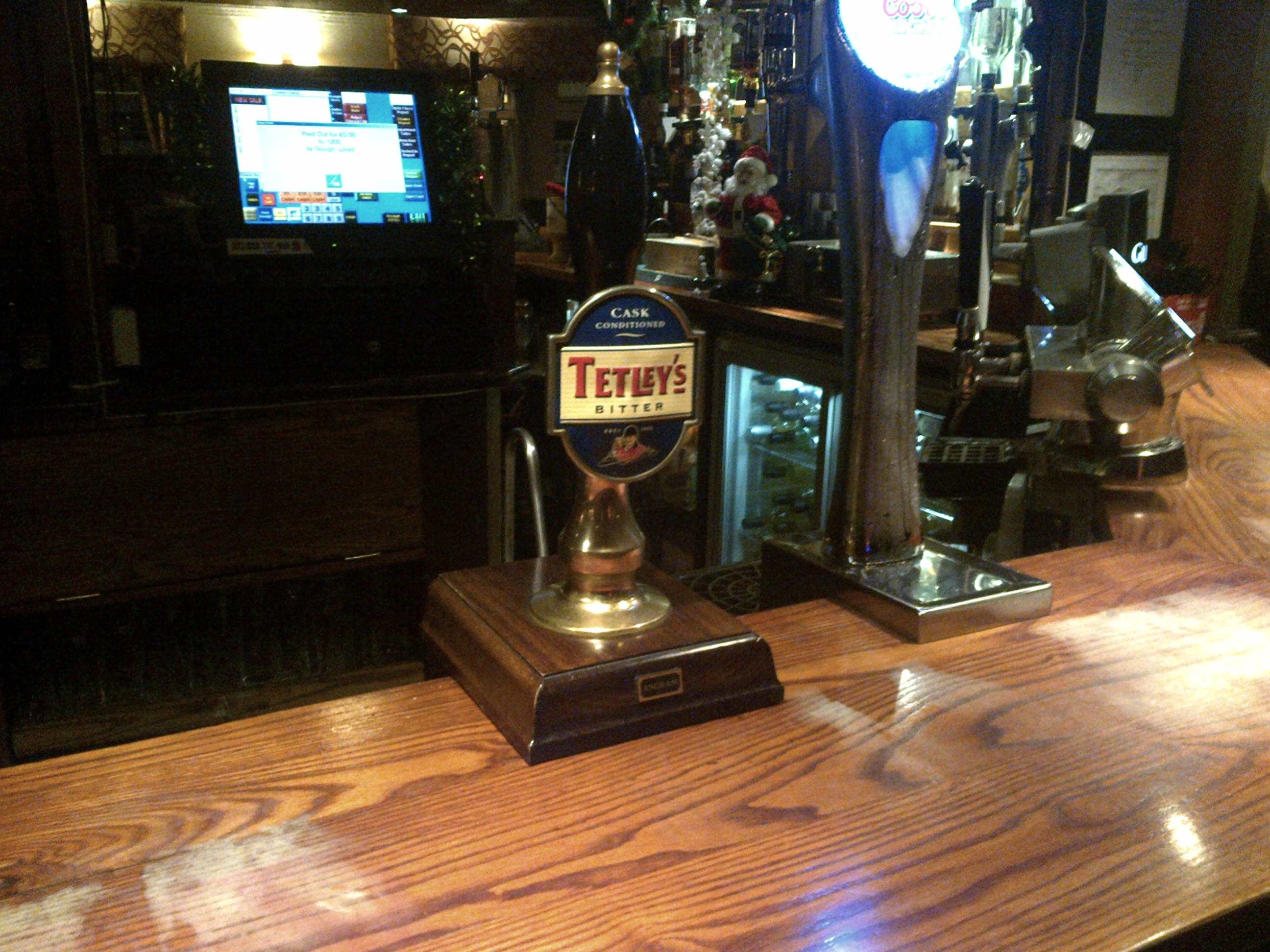 Interior of the New Inn on Westgate in Wetherby, West Yorkshire. Taken on the afternoon of Sunday the 25th of November 2013.